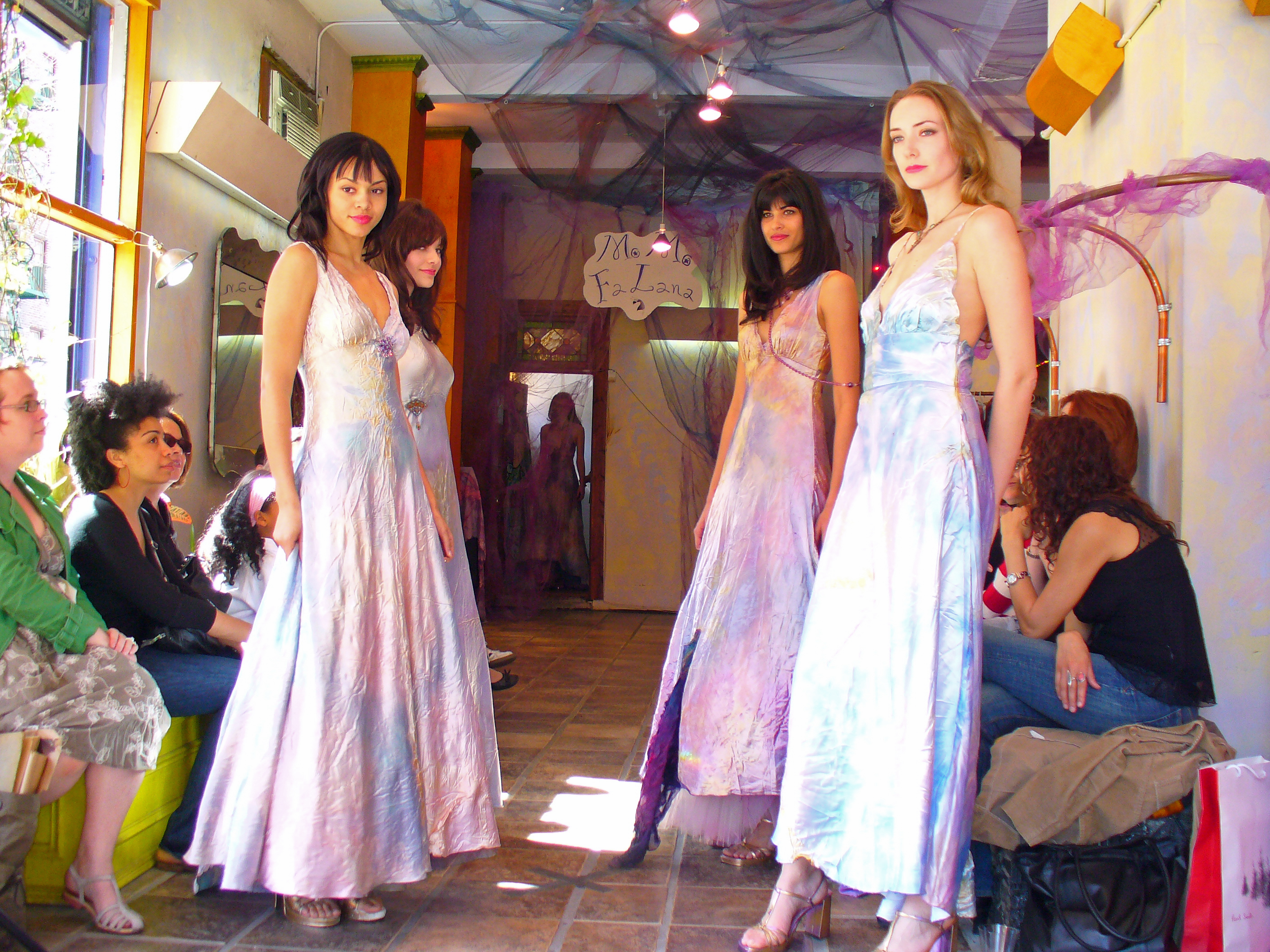 Silk dresses at the MoMo Falana fashion show